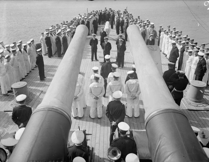 Greek Independence Day in the Greek Navy. 23 February 1943, Port-said, Greek Independence Day, March 25; Will Be Widely Celebrated. Sailors Serving in the Greek Section of the Allied Navies Always Remember That Day. Rear Admiral a Sakellariou, Commander in Chief of the Royal Hellenic Navy Flies His Flag in the Cruiser Hhms Giorgios Averoff. Morning divisions on the quarterdeck of HHMS GIORGIOS AVEROFF.